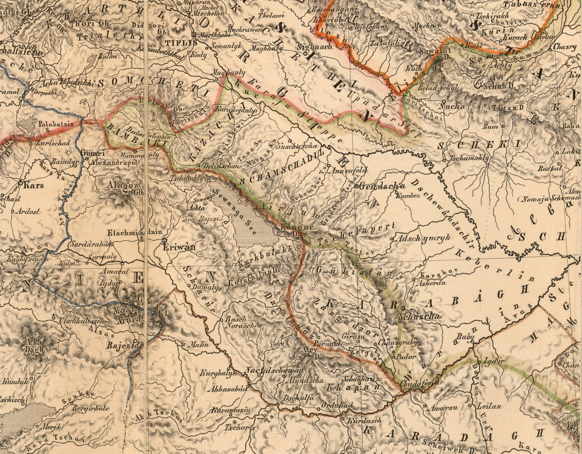 Map of Russian Armenia and Mountainous Karabakh within Russian Transcaucasia from Karte der Kaukasus-Länder by Henry Lange in the German edition of Baron August von Haxthausen's Transcaucasia.